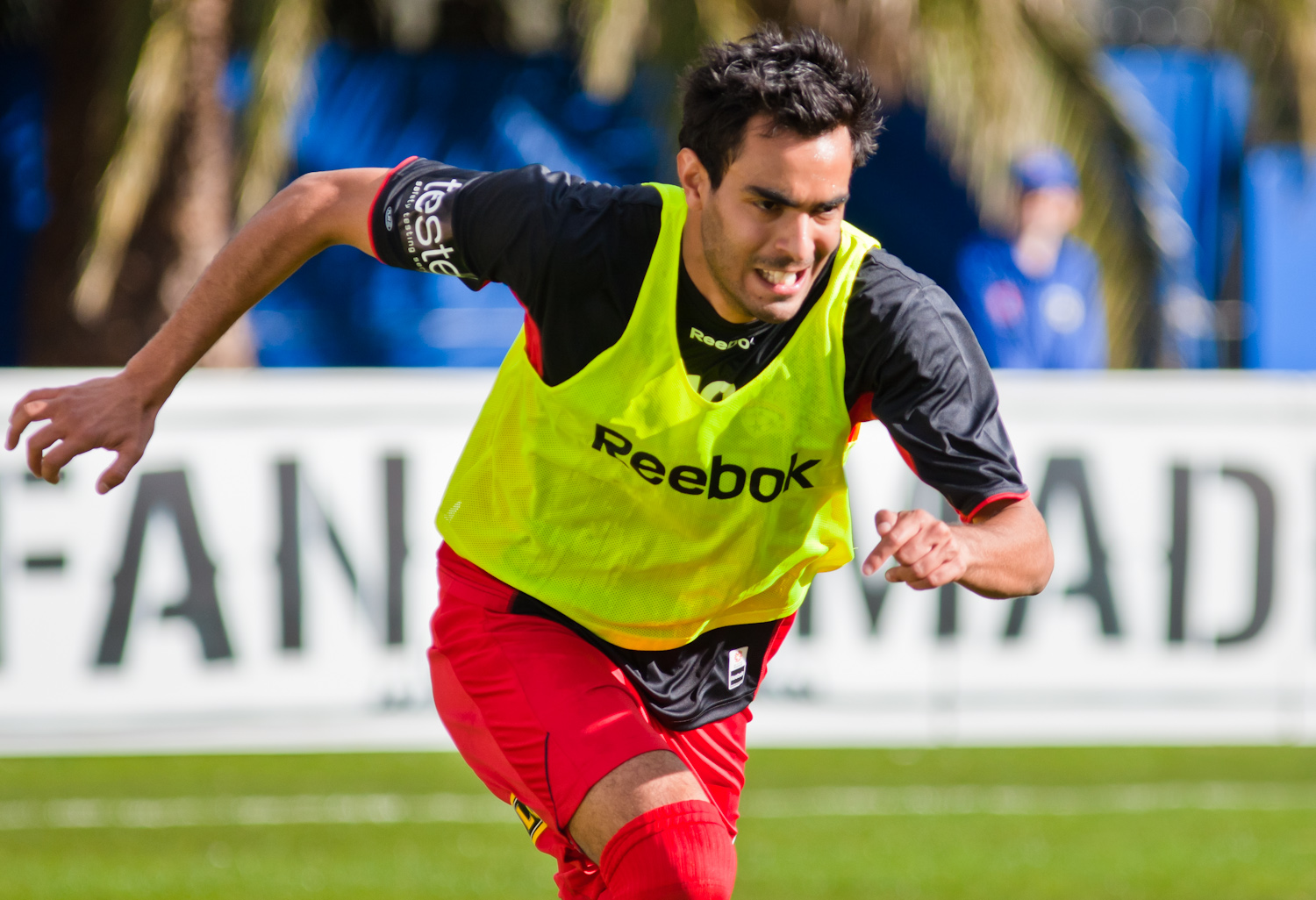 Marcos Flores warming up with Adelaide United before an A-League Round 2 game against the Central Coast Mariners.